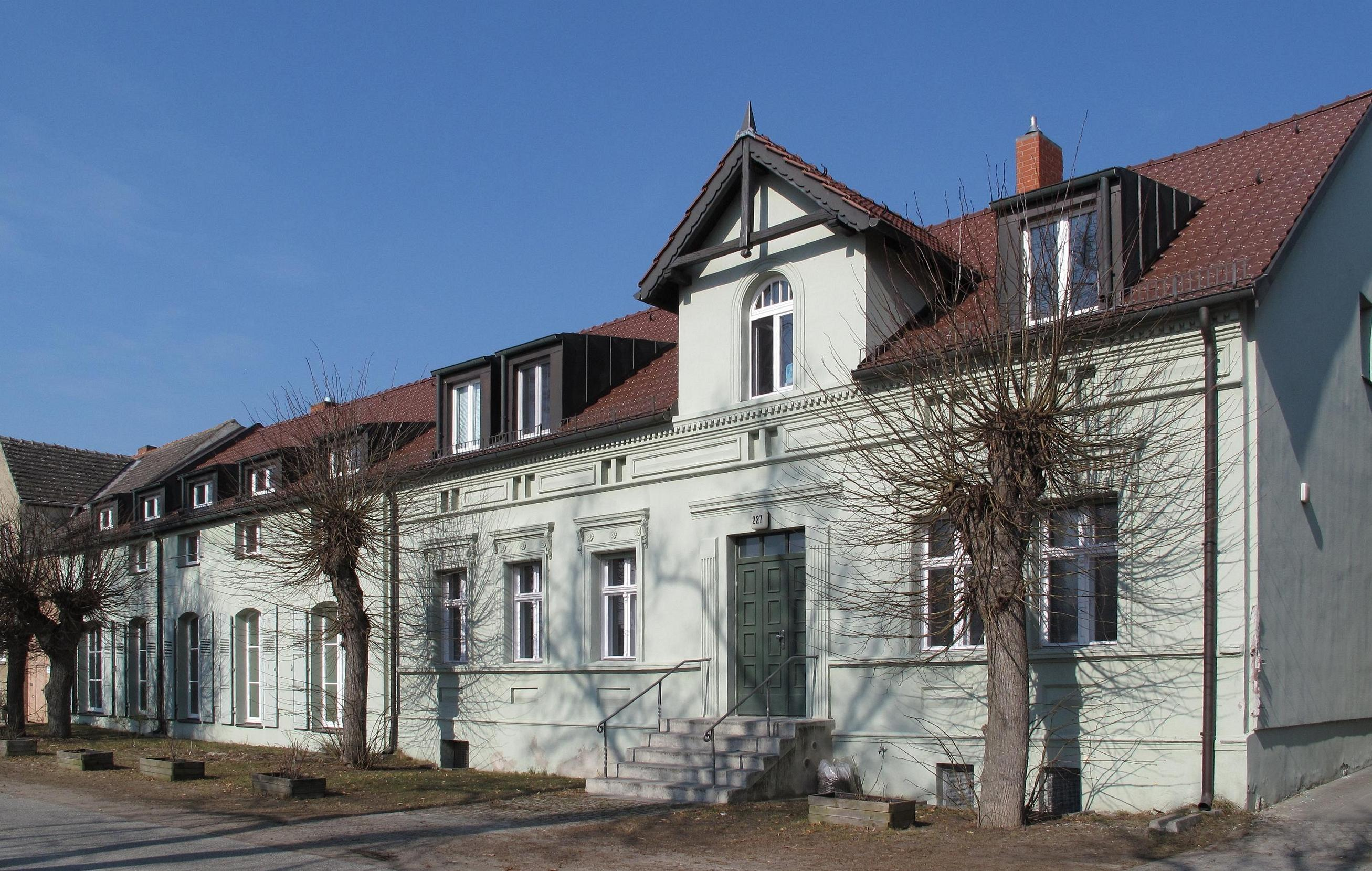 Listed former inn with hall cultivation in Fresdorf. Fresdorf is a part of Michendorf in the district Potsdam-Mittelmark, state Brandenburg, Germany.